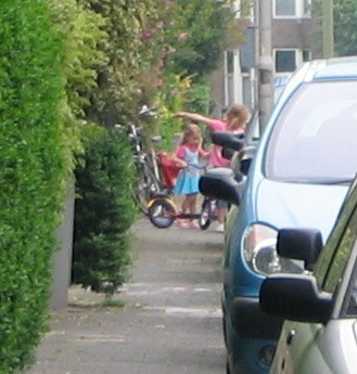 street design